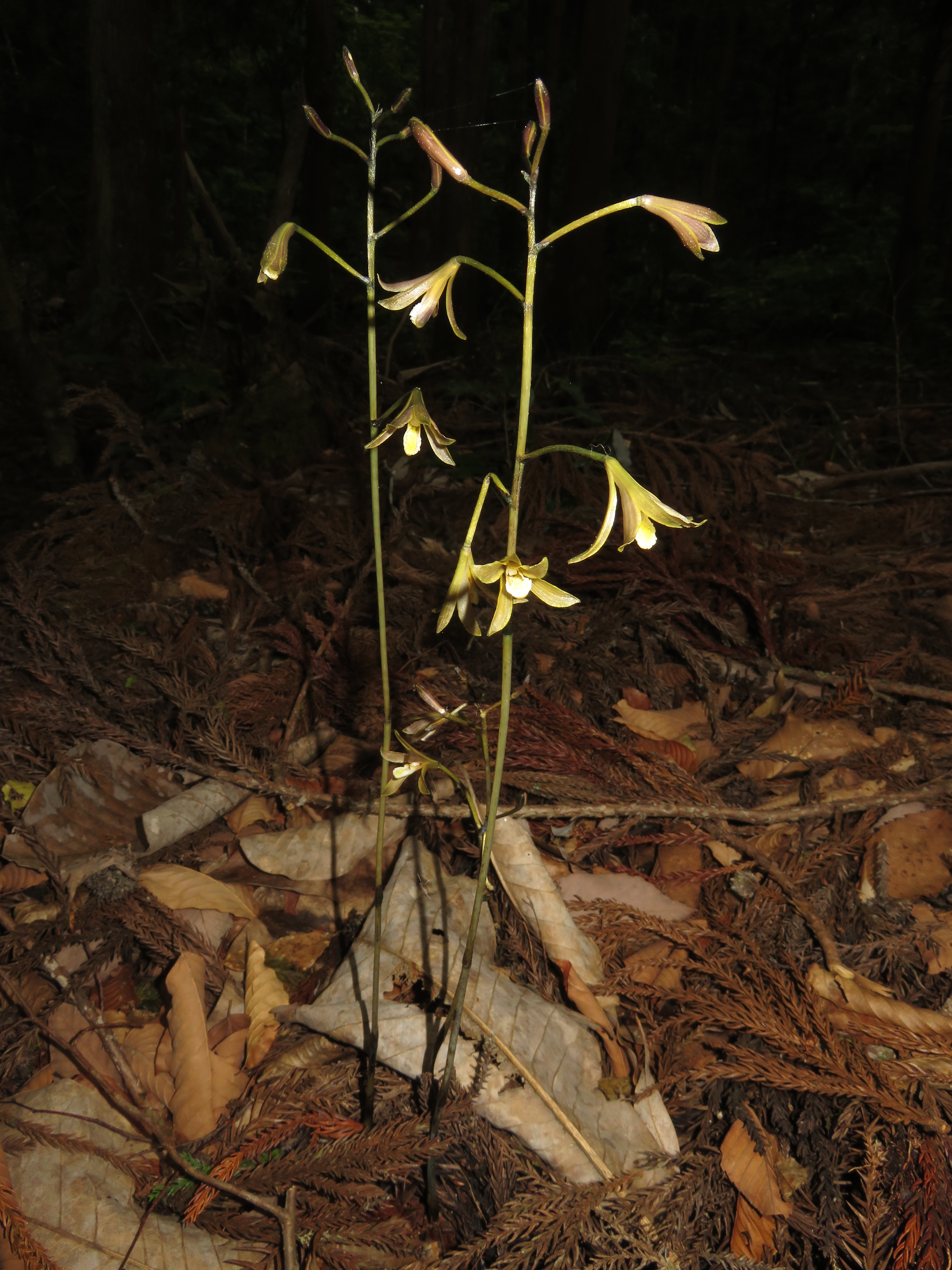 Lecanorchis japonica, Hama-dori area, Fukushima pref., Japan